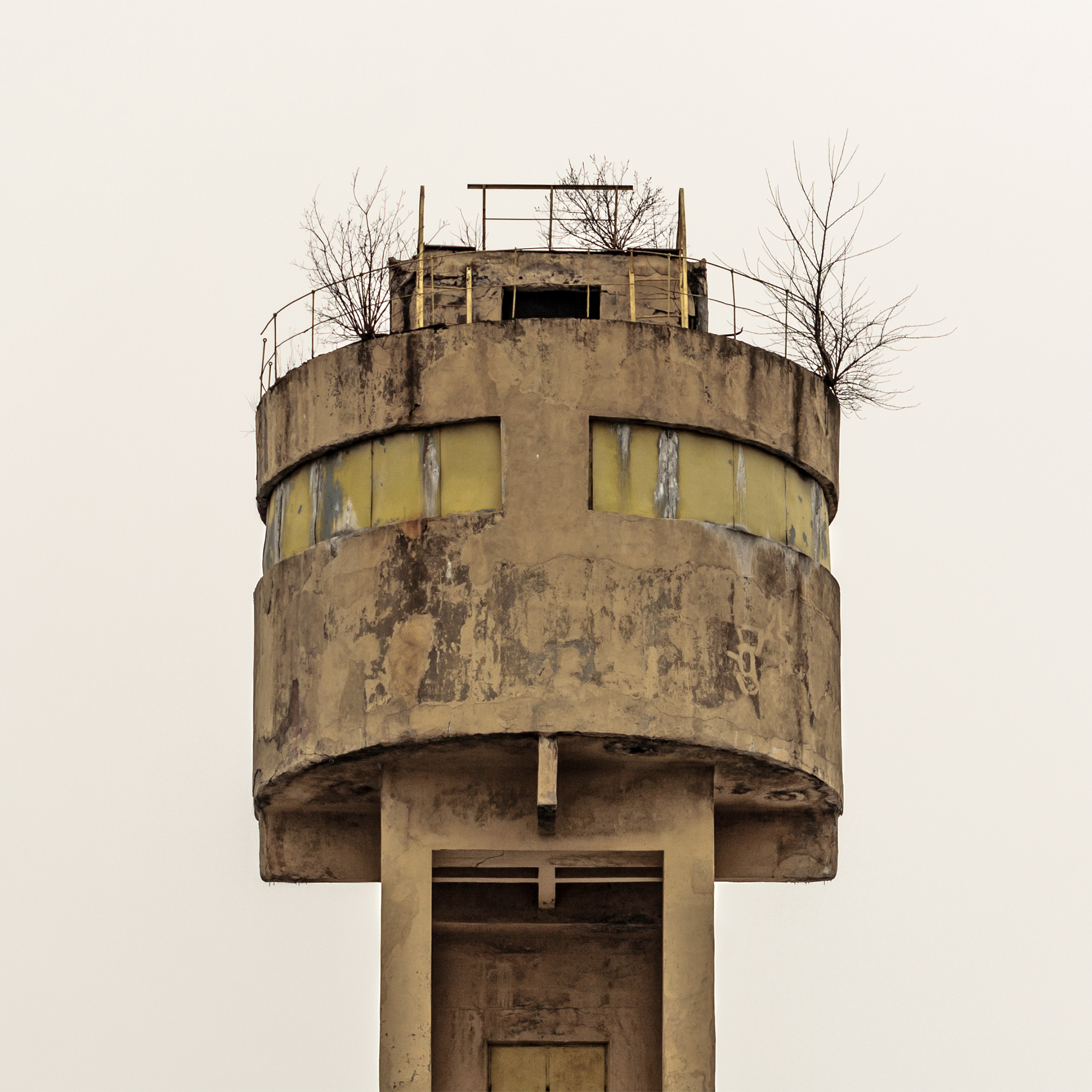 Water tower of the Red Nailer Factory designed by Yakov Chernikhov. 25th Line of Vasilyevsky Island, 6-1, St. Petersburg, Russia